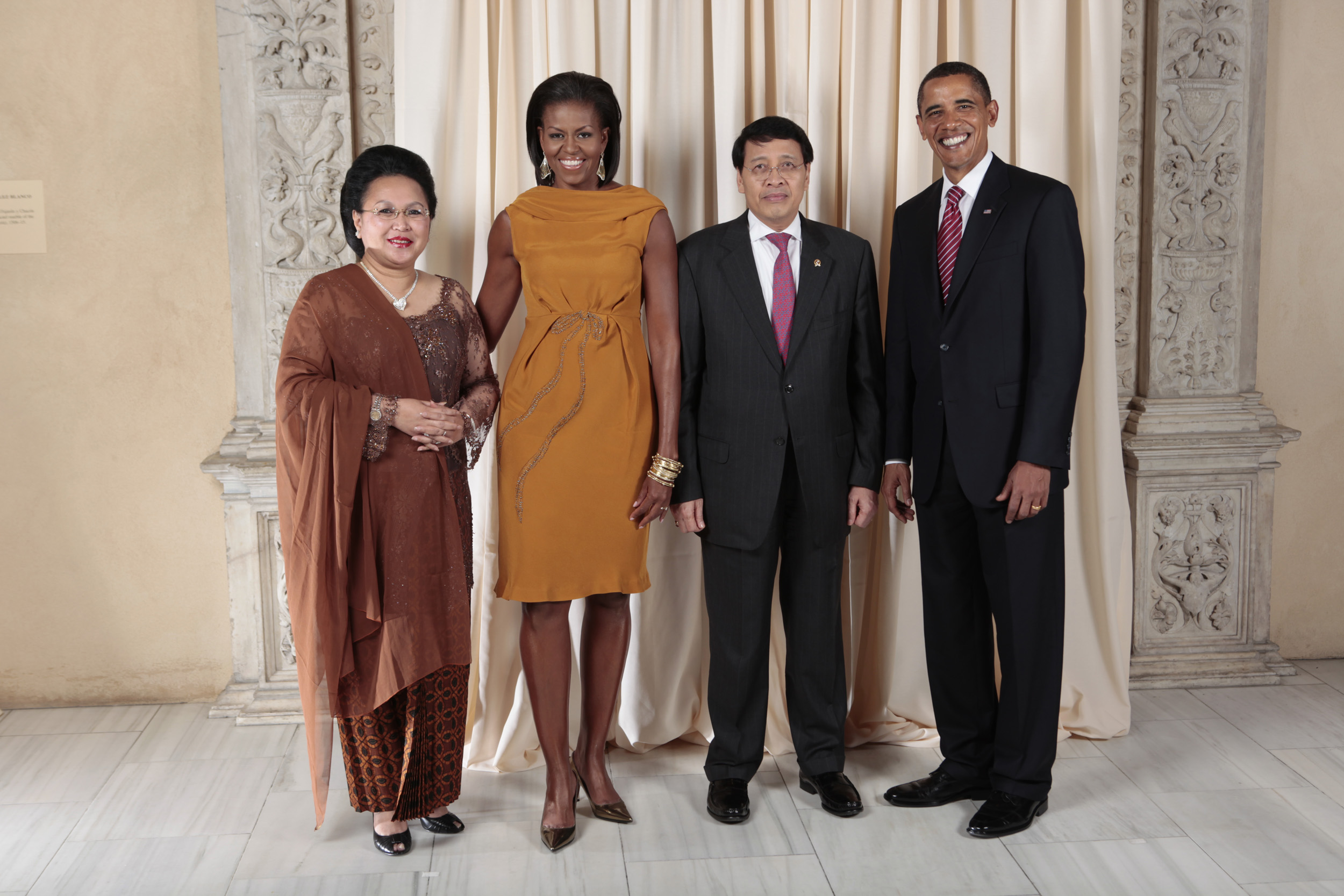 President Barack Obama and First Lady Michelle Obama pose for a photo during a reception at the Metropolitan Museum in New York with N Hassan Wirajuda, foreign minister of Indonesia, and his wife, Mrs. Wirajuda.